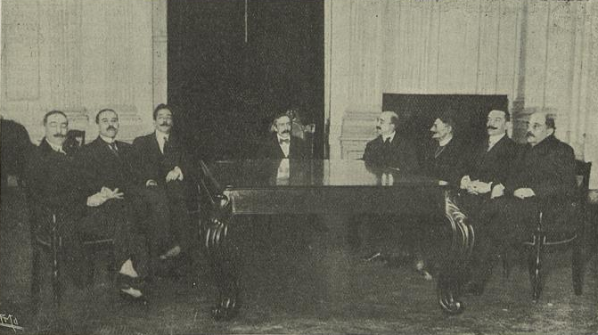 The cabinet of Portuguese Prime Minister Victor Hugo de Azevedo Coutinho (colloquially referred to as "Victor Hugo's Les Misérables"), in December 1914.